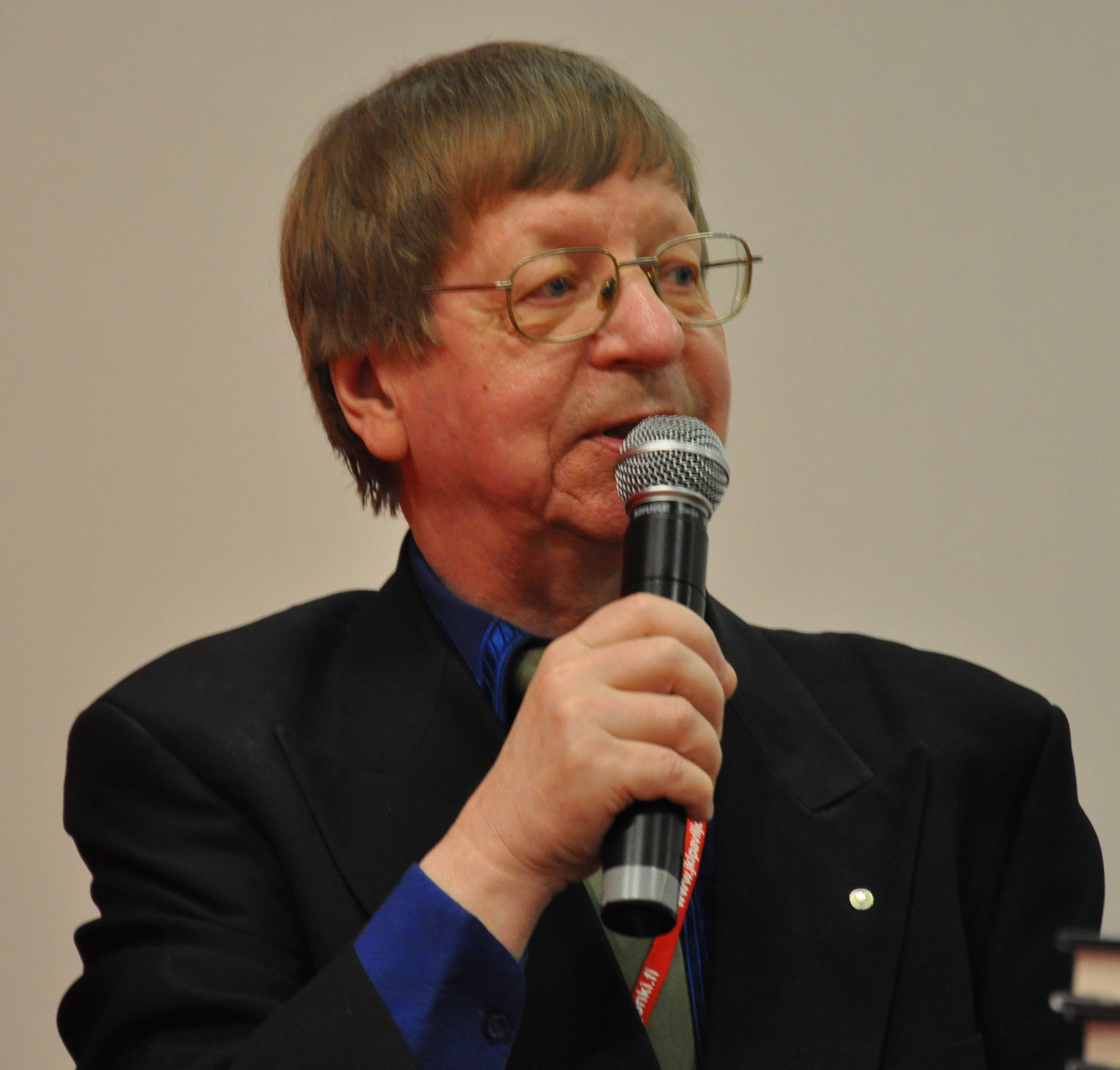 Finnish writer Hannu Hirvikoski speaking at the Jyväskylä Book Fair 2009.